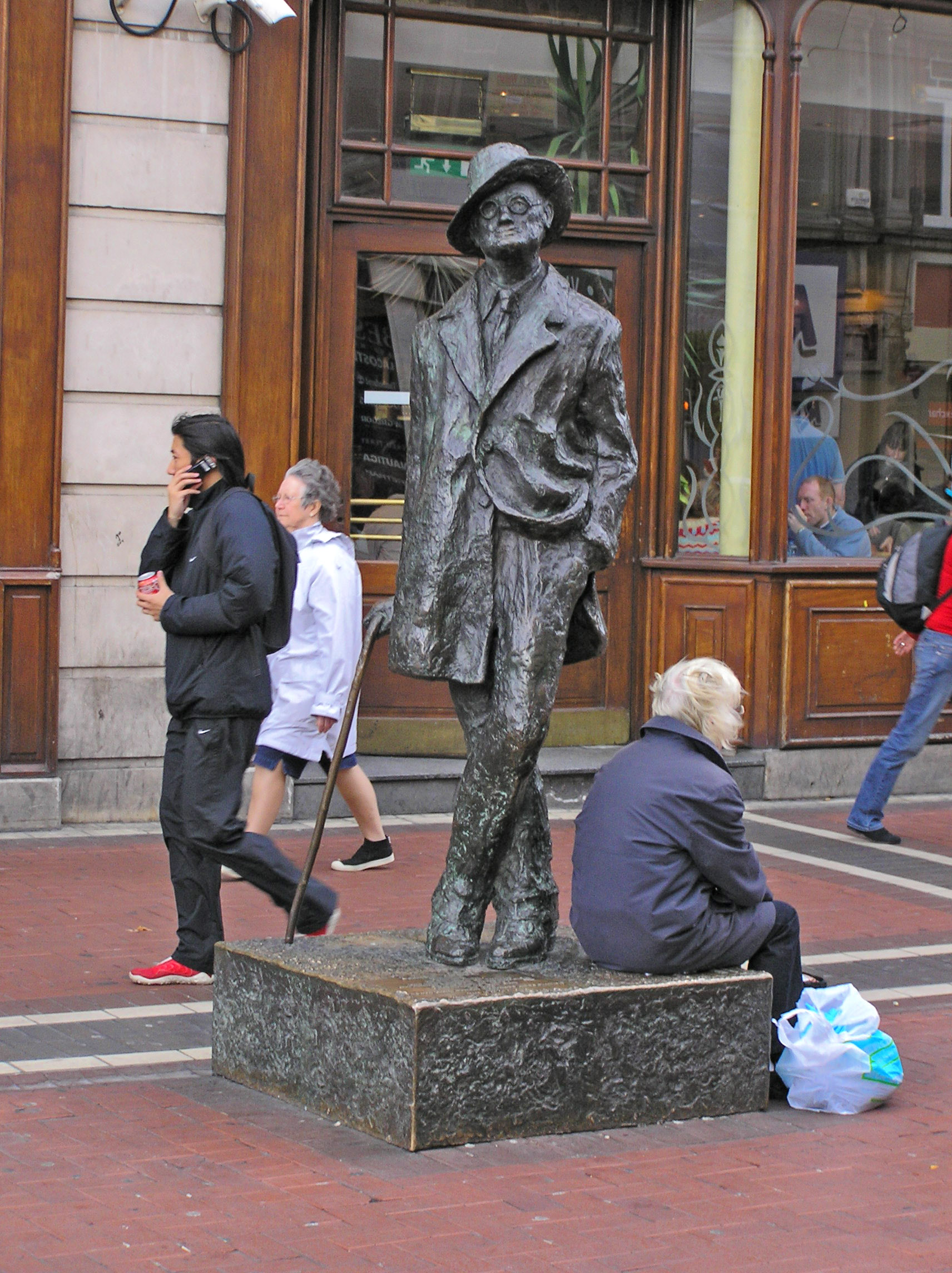 James Joyce statue on North Earl Street near its junction with O'Connell Street in Dublin, Ireland.